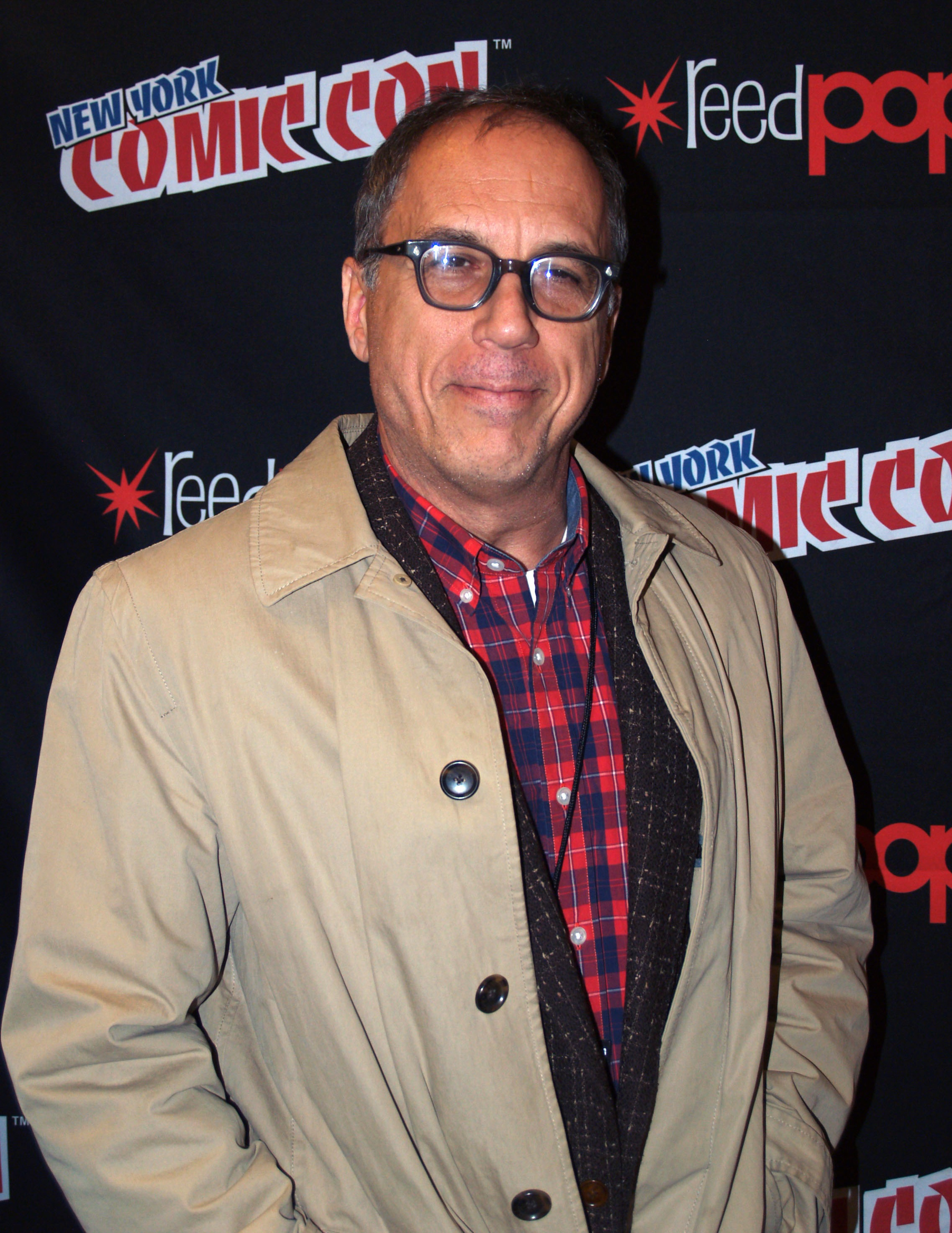 Author and professor David Hajdu at a discussion panel on Harvey Kurtzman's Jungle Book on Saturday, October 11, 2014 at the Jacob K. Javits Convention Center in Manhattan, Day 3 of the 2014 New York Comic Con. This photo was created by Luigi Novi. It is not in the public domain, and use of this file outside of the licensing terms is a copyright violation.